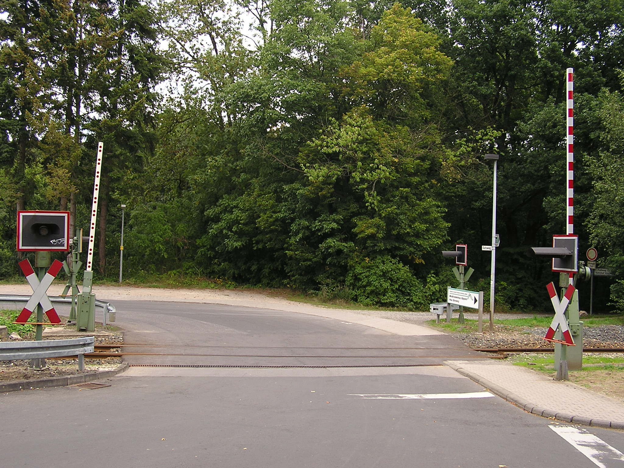 Level crossing with gates in Friedrichsdorf